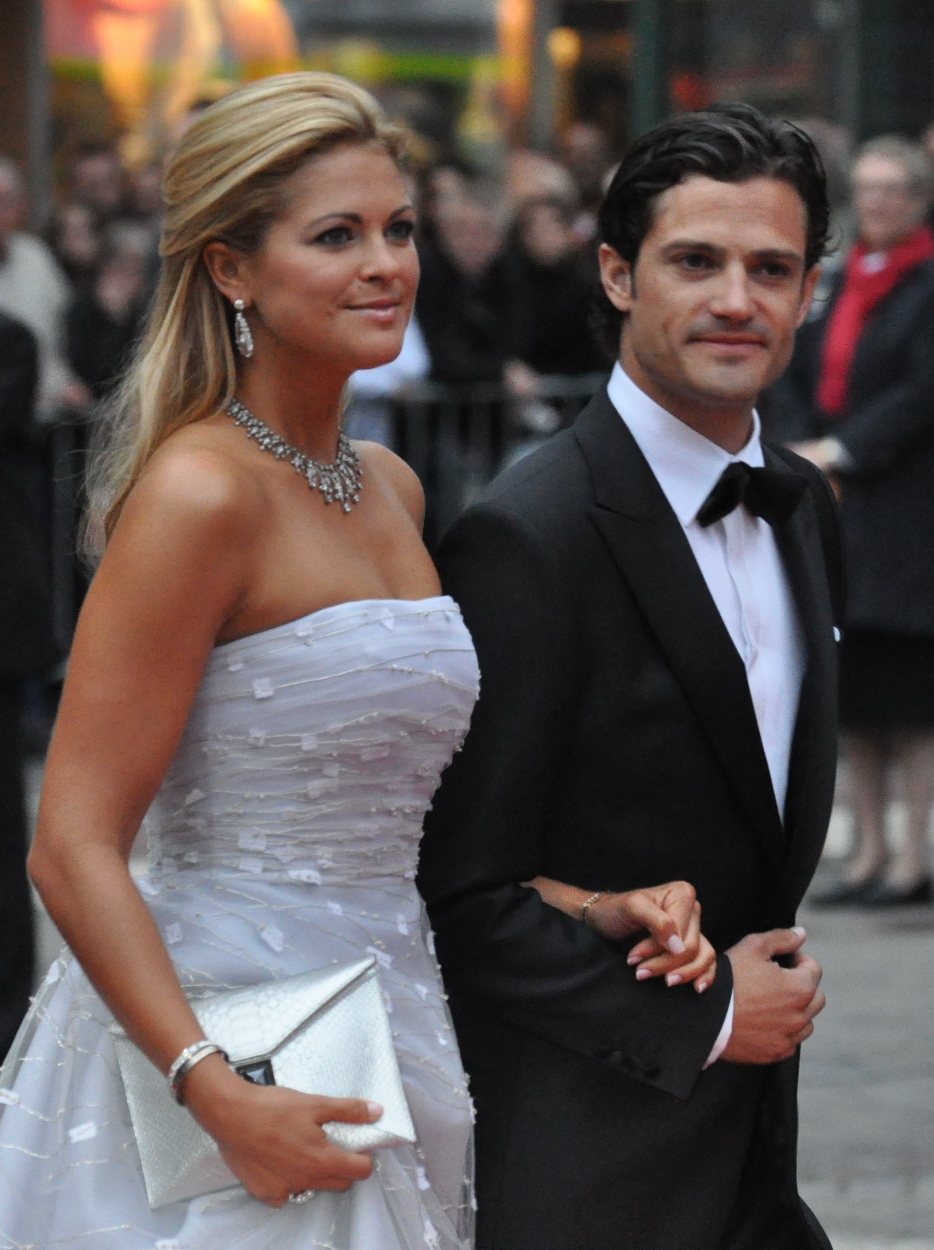 Wedding of Victoria, Crown Princess of Sweden, and Daniel Westling; Arrival of members for the Gouvernment and Swedish and foreign guests of hounour to the Riksdag's Gala Performance at Konserthuset: Princess Madeleine and Prince Carl Philip